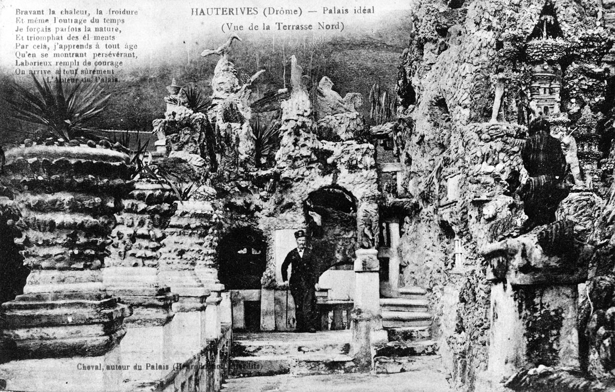 Facteur Ferdinand Cheval, „Palais idéal“